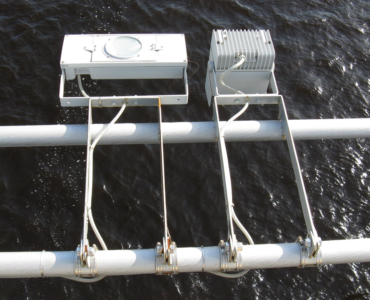 The white uplighters and blue downlighters on the Infinity Bridge, Stockton-on-Tees.